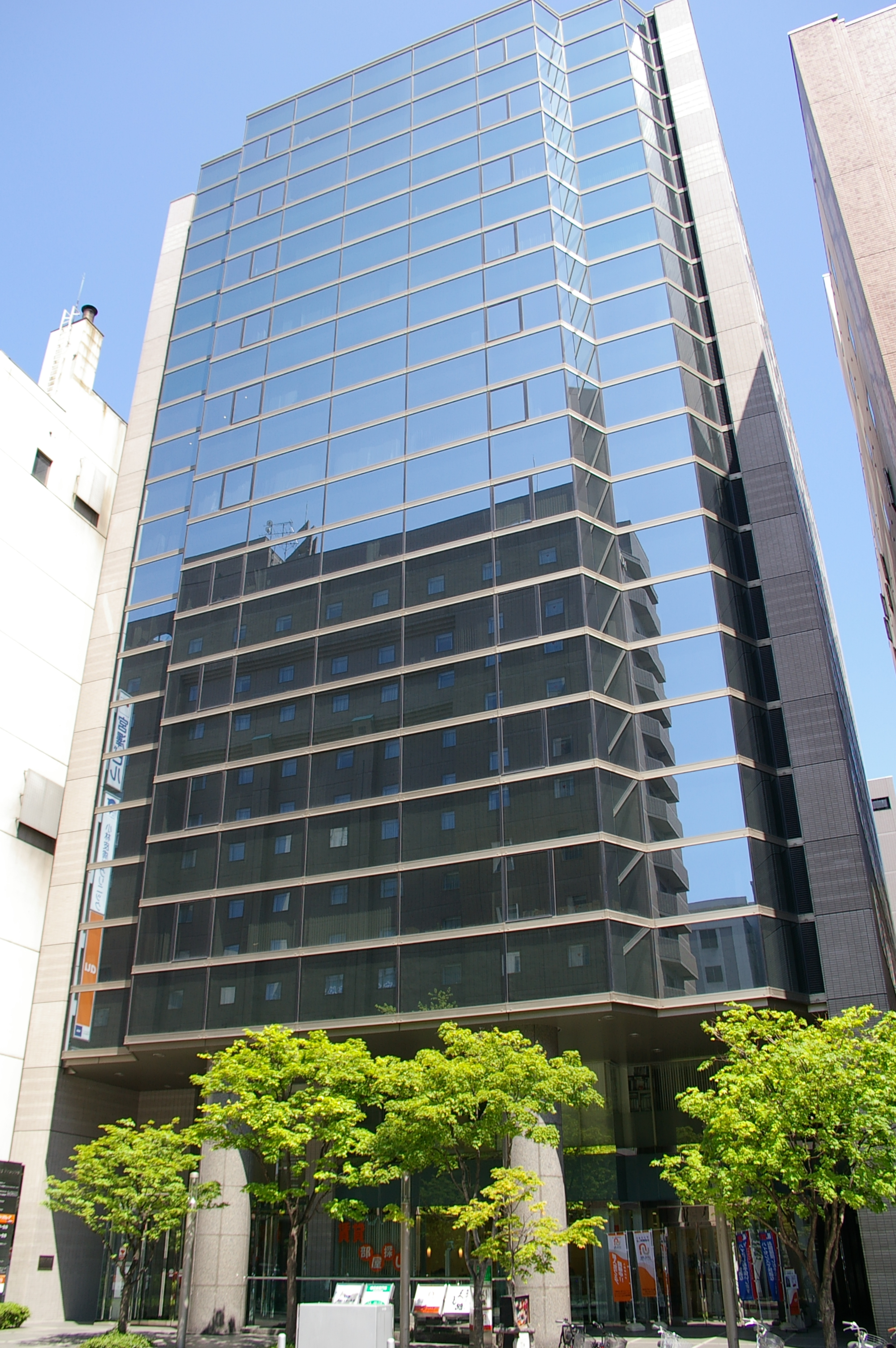 Photograph of Shin-Hokkaido Building in Kita-ku, Sapporo, Hokkaido, Japan.